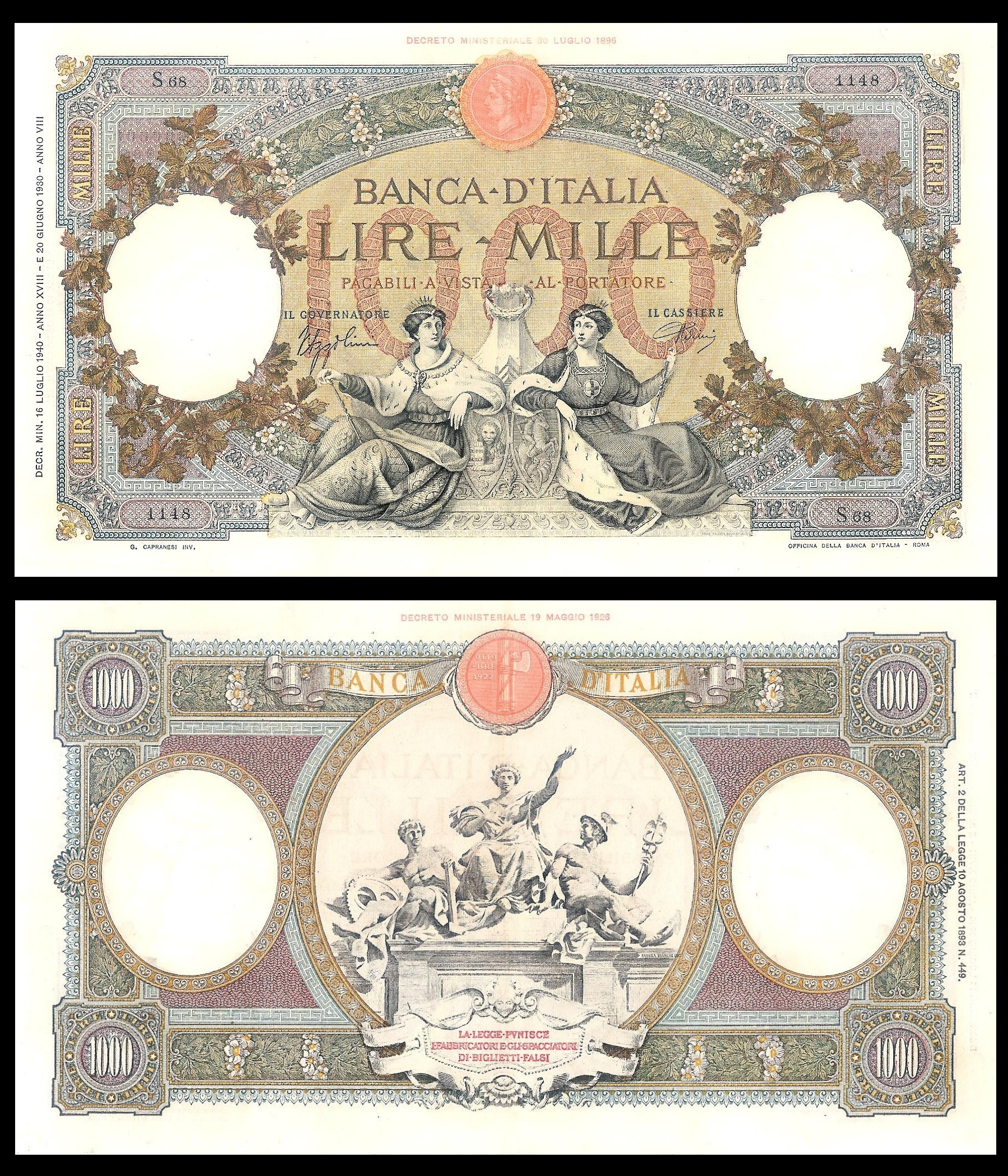 1000 Lire Queens of the sea